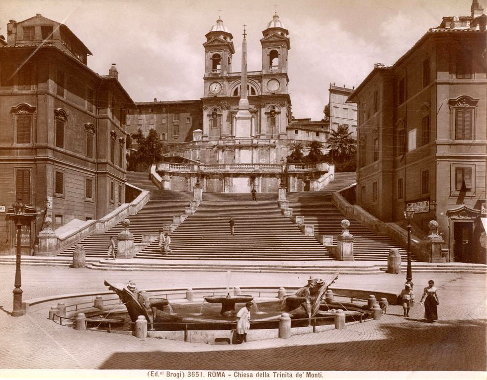 Giacomo Brogi (1822-1881) - "Rome - Church of Chiesa della Trinità de' Monti". Catalogue # 3651.